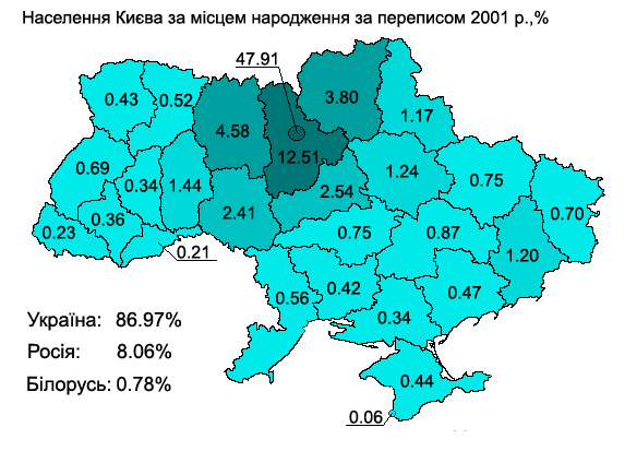 Place of birth of Kyiv's population according to 2001 census